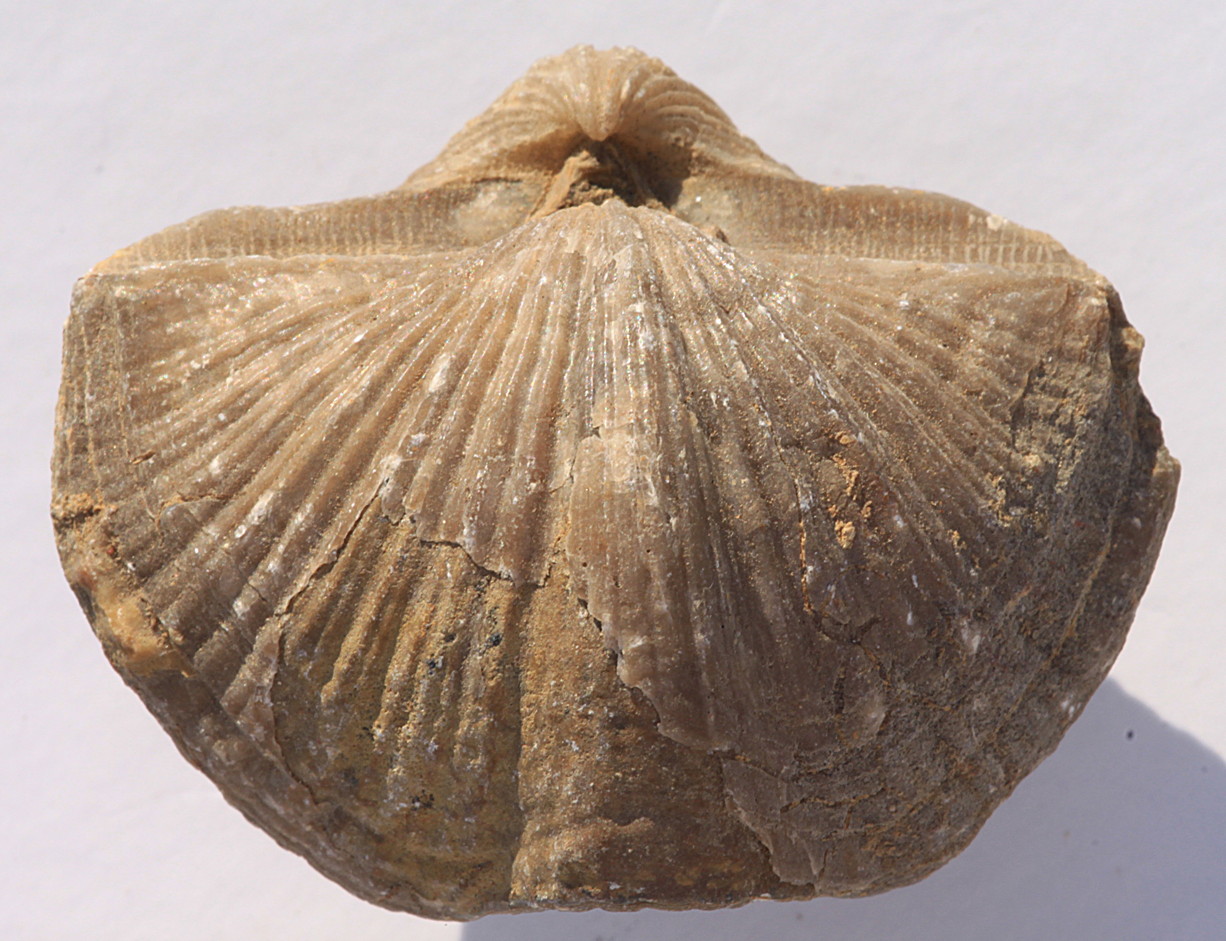 A Neospirifer dunbari lampshell, Order Spiriferida, Family Spiriferidae, 42mm along the axis, brachial valve, collected from the Trickham Formation in McCulloch County, Texas, USA, from the Upper Pennsylvanian Carboniferous (Kasimovian)